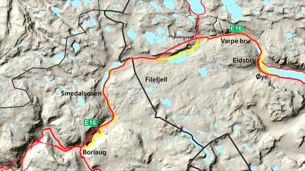 Plan for construction works on E16 Filefjell